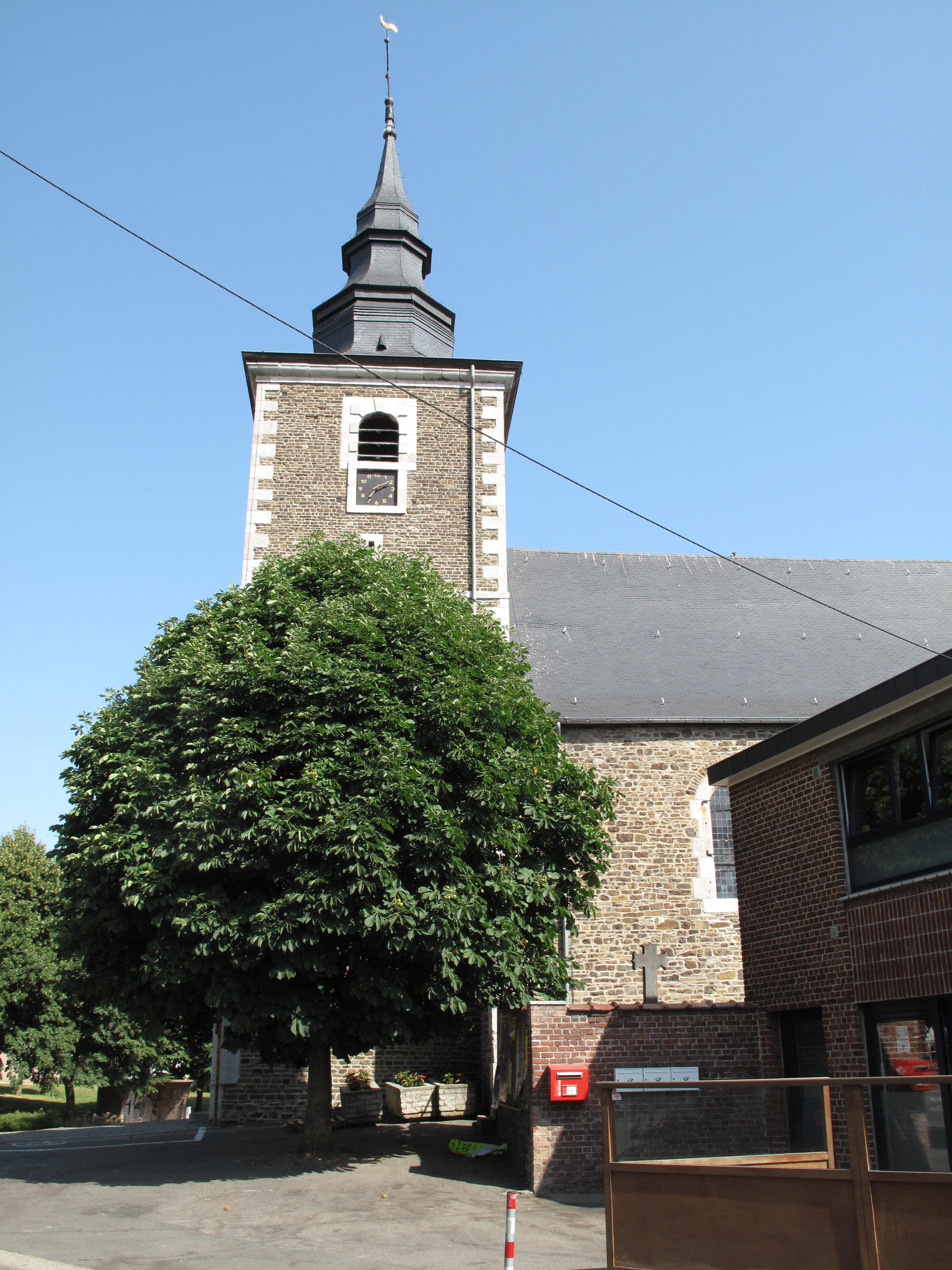 Wandre, church